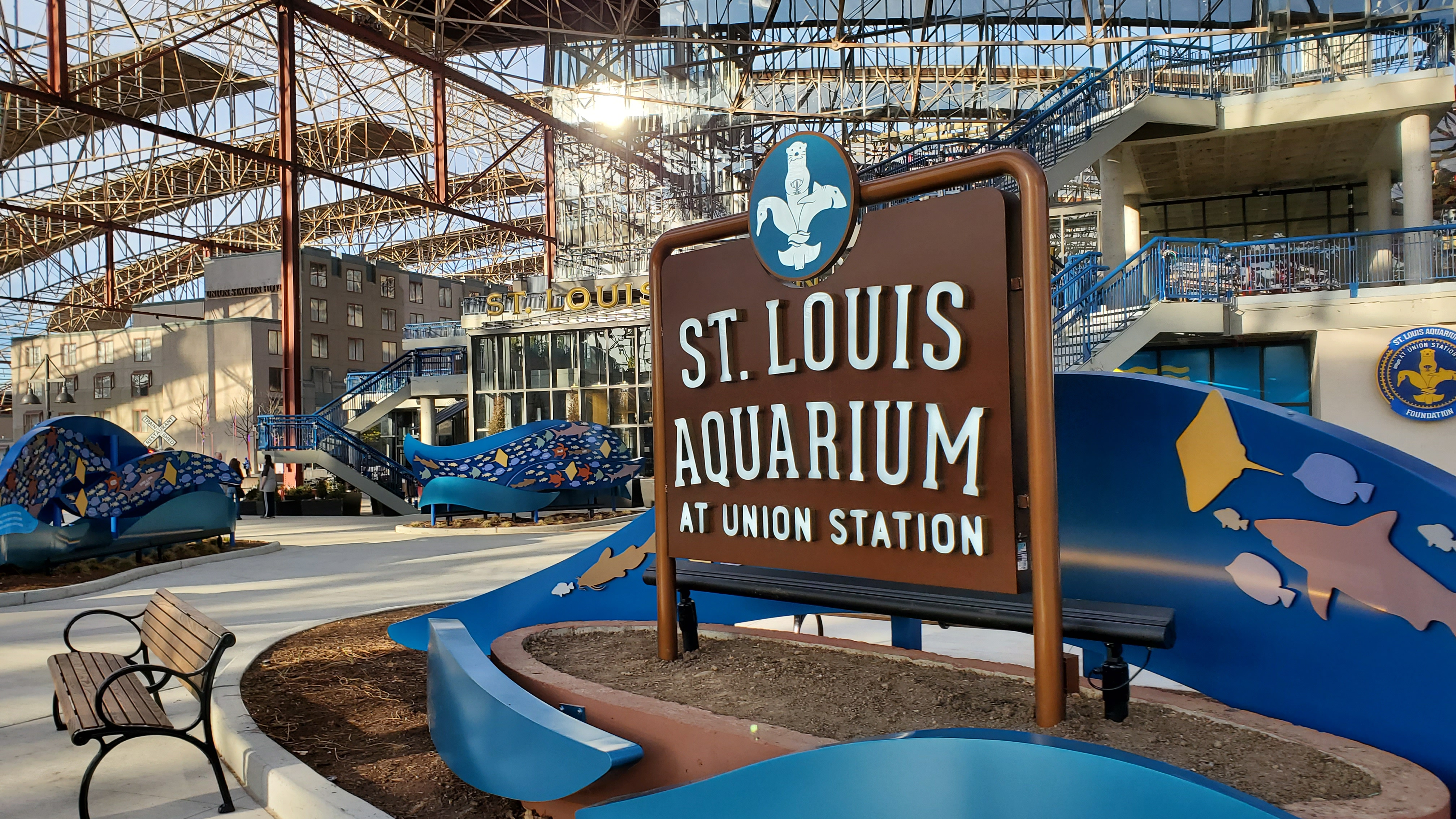 St. Louis Aquarium Entrance